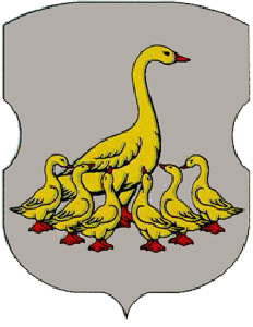 COA Ilyintsy city Ukraine ar. Vinnytsia distr. Ilinetsky 1757